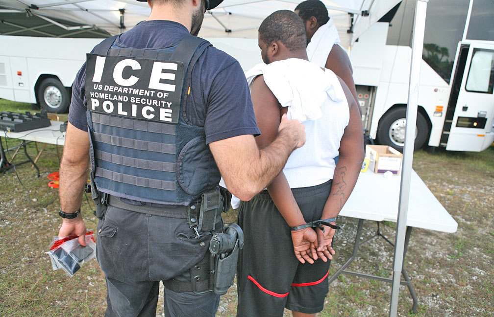 HSI Special Agent arresting a suspect.